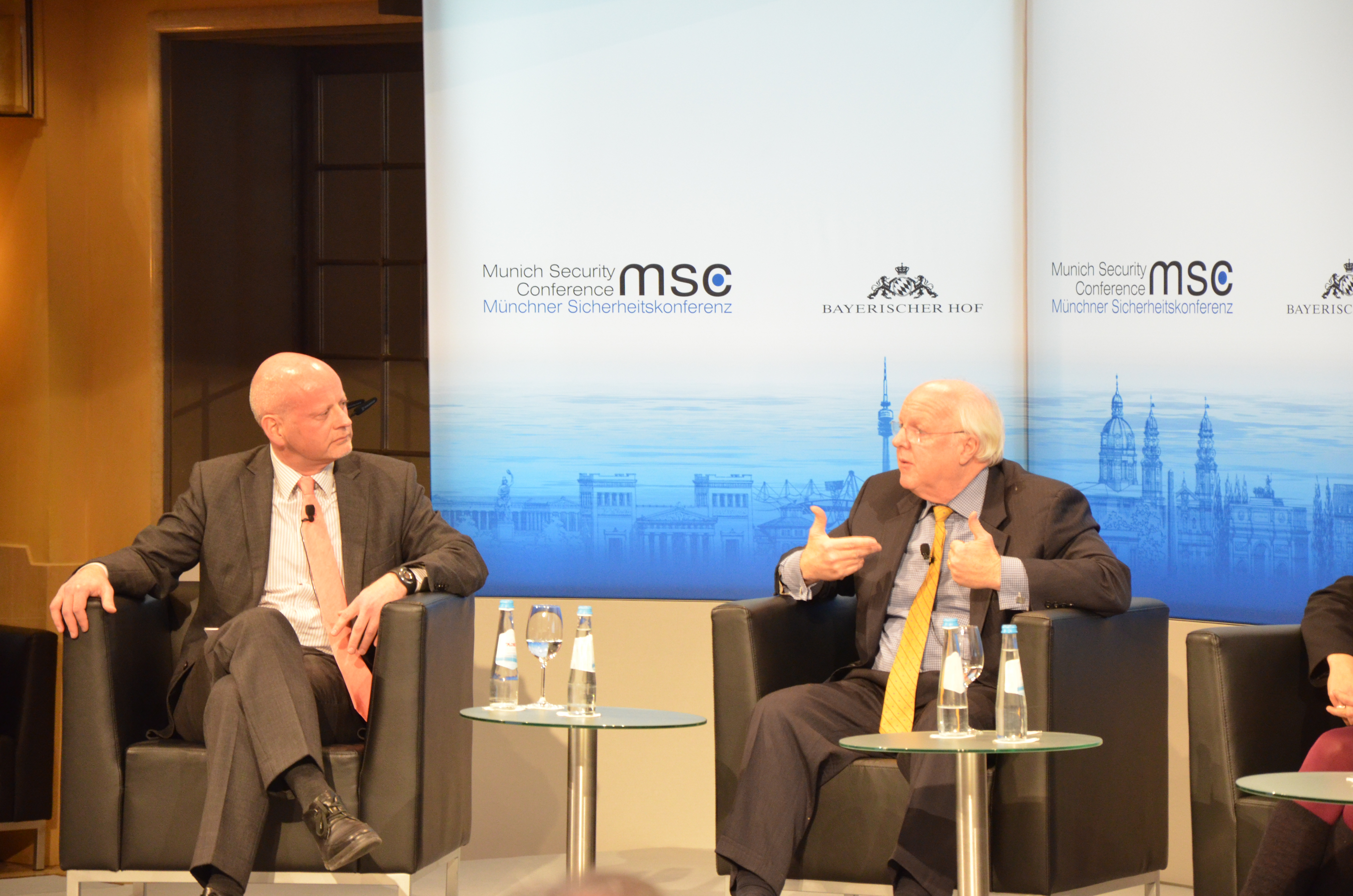 Stephan Bierling and Jackson Janes